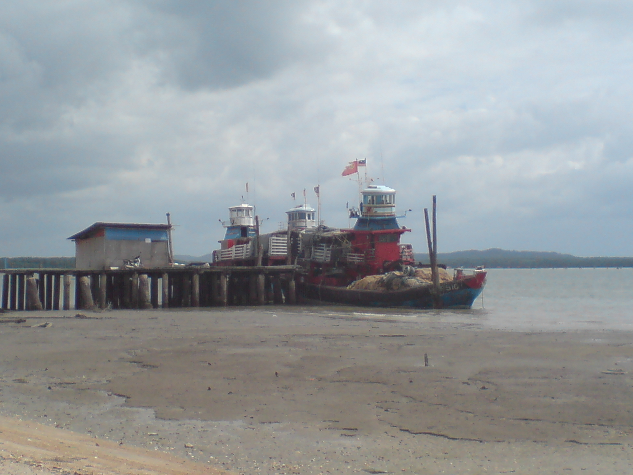 Pukat Bilis Boat.